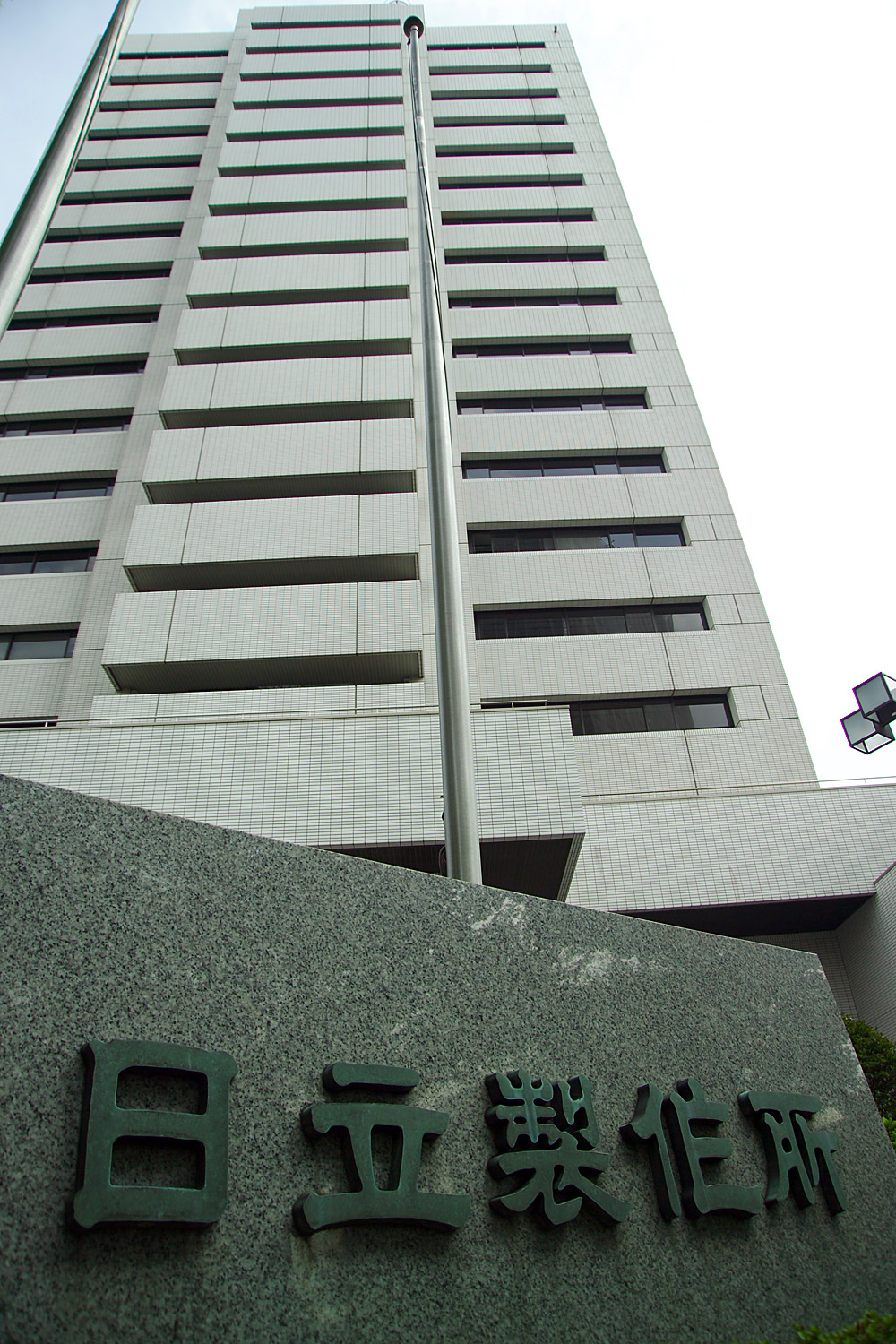 An office building of Hitachi Seisakusho. Opposite Nikolai-do in Chiyoda-ku, Tokyo, Japan. I took the photo and contribute my rights in the file to the public domain; people and organizations retain rights to images in it.